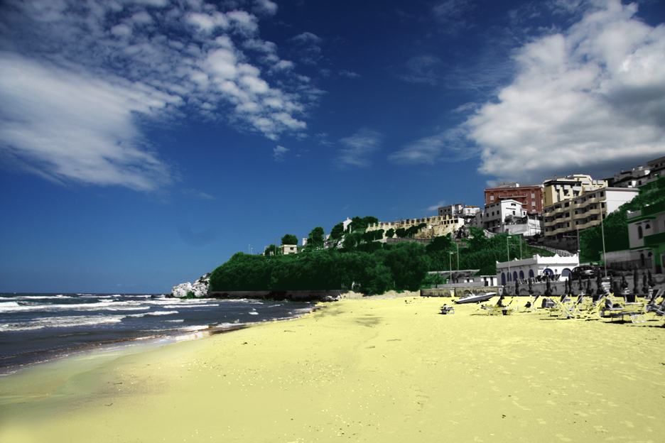 Riviera di Ponente (eastern beach), Rodi Garganico (FG) Italy